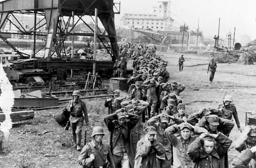 Polish soldiers taken POW after the capitulation of Westerplatte Picture from a German WWII German war chronicle